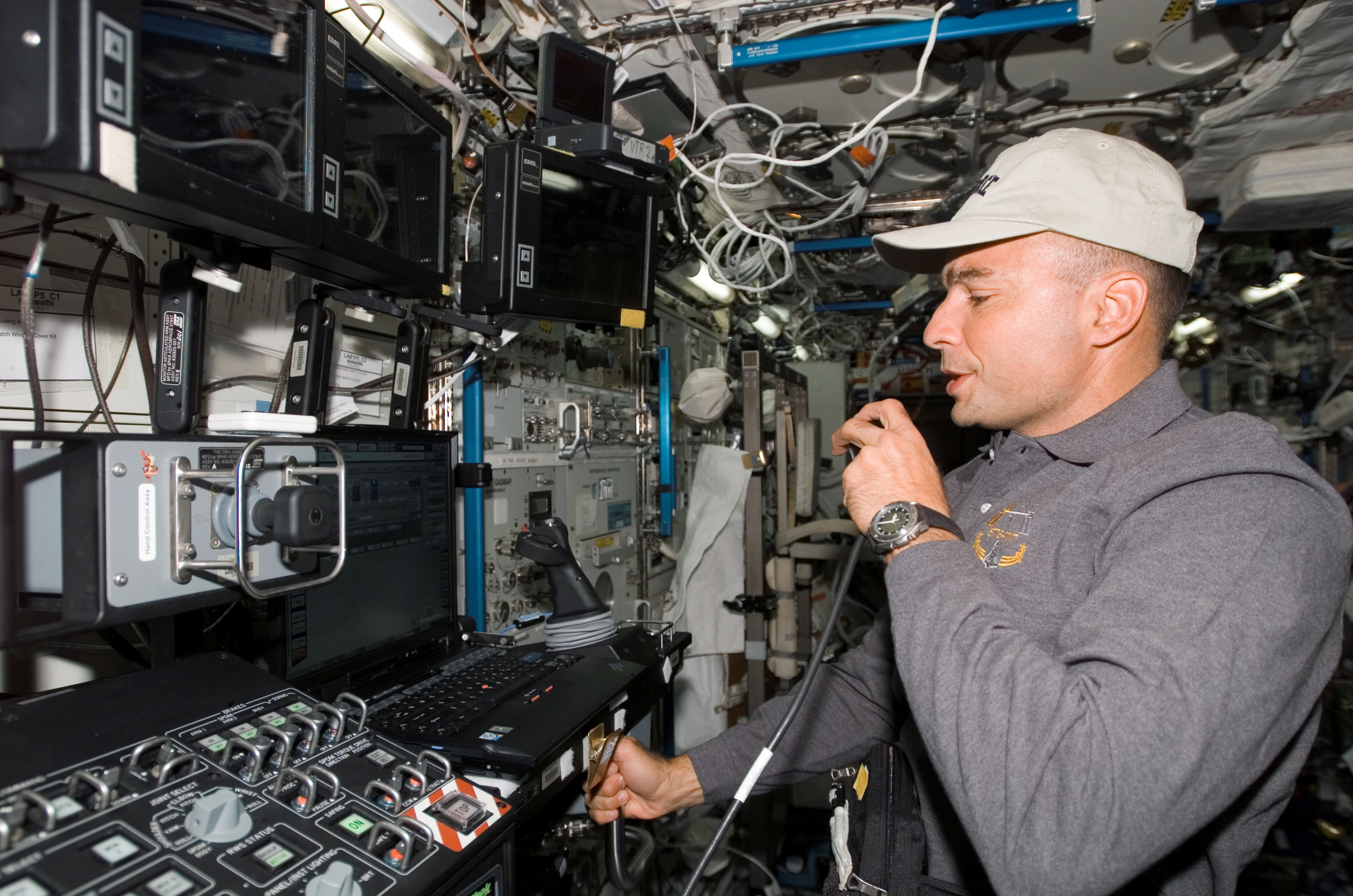 Lee Archambault at the Canada Arm 2 controls on ISS. Astronaut Lee Archambault, STS-117 pilot, uses a communication system near the controls of the Space Station Remote Manipulator System (SSRMS) or Canadarm2 in the Destiny laboratory of the International Space Station during flight day five activities while Space Shuttle Atlantis was docked with the station.